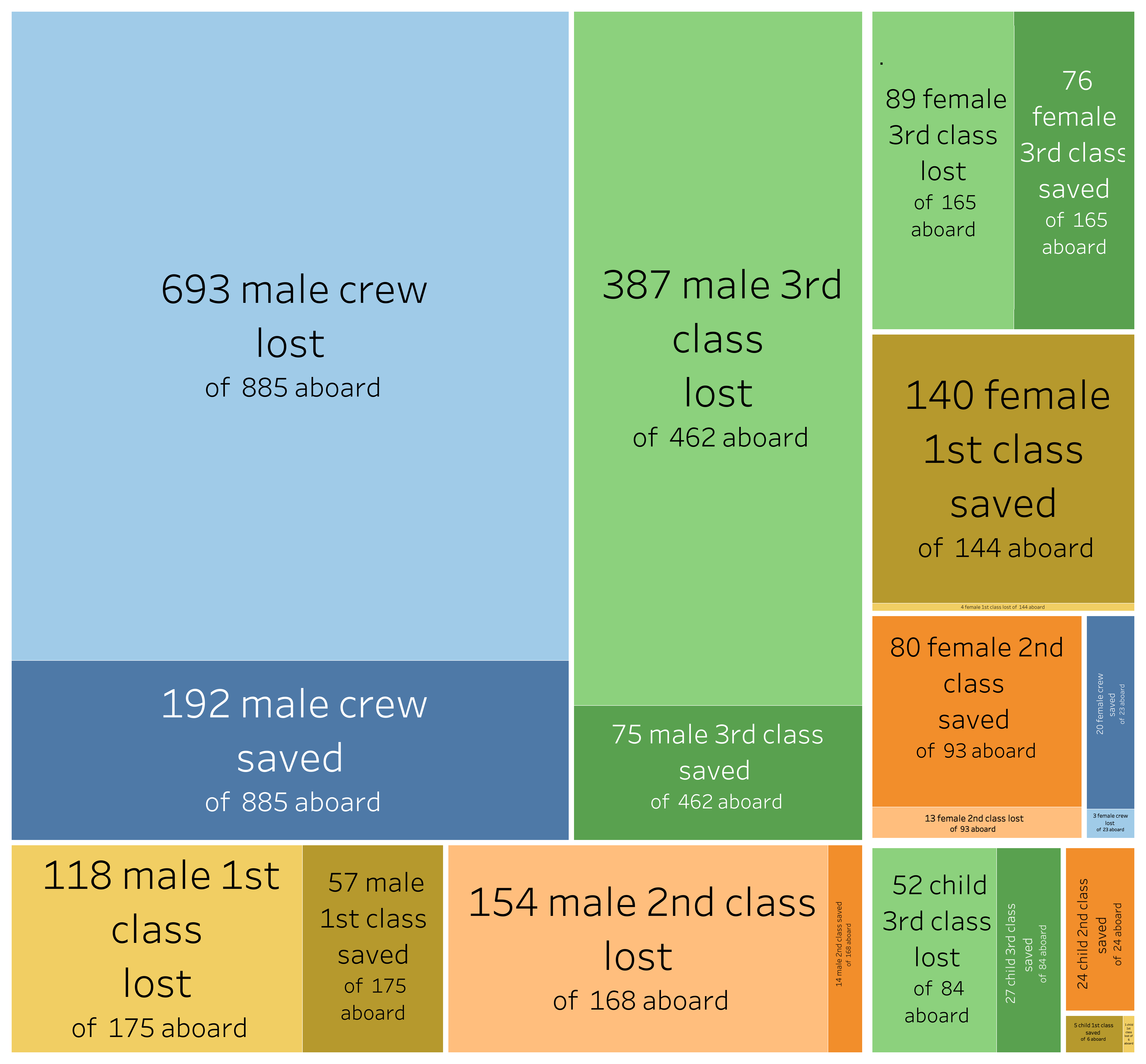 Treemap showing passengers and crew of the RMS Titanic, with colors showing First, Second, Third Class, or Crew, and whether survived or died by color tone. Broken down by men, women, and children. Text shows number saved or lost, out of total aboard.